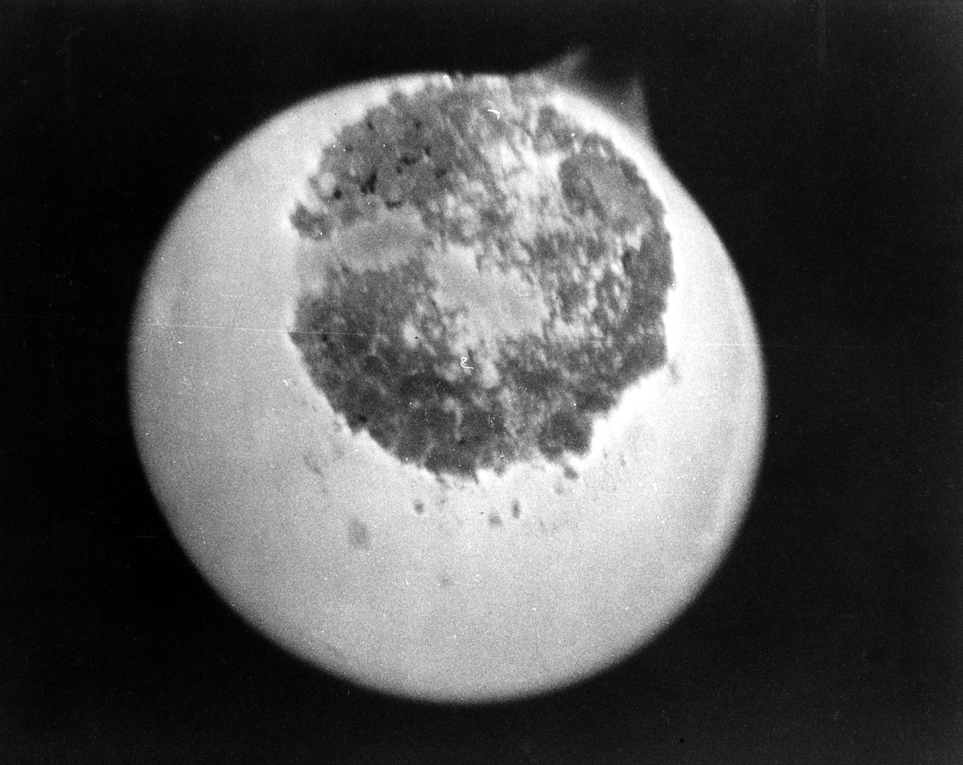 This sample of Protactinium-233 (dark circular area in the photo) was photographed in the light from its own radioactive emission (the lighter area) at the National Reactor Testing Station in Idaho.